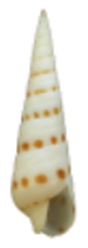 Shell of Oxymeris felina (synonym: Acus felinus).